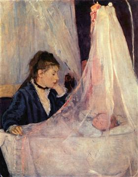 Work by Berthe Morisot